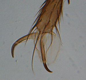 Leg of the house fly